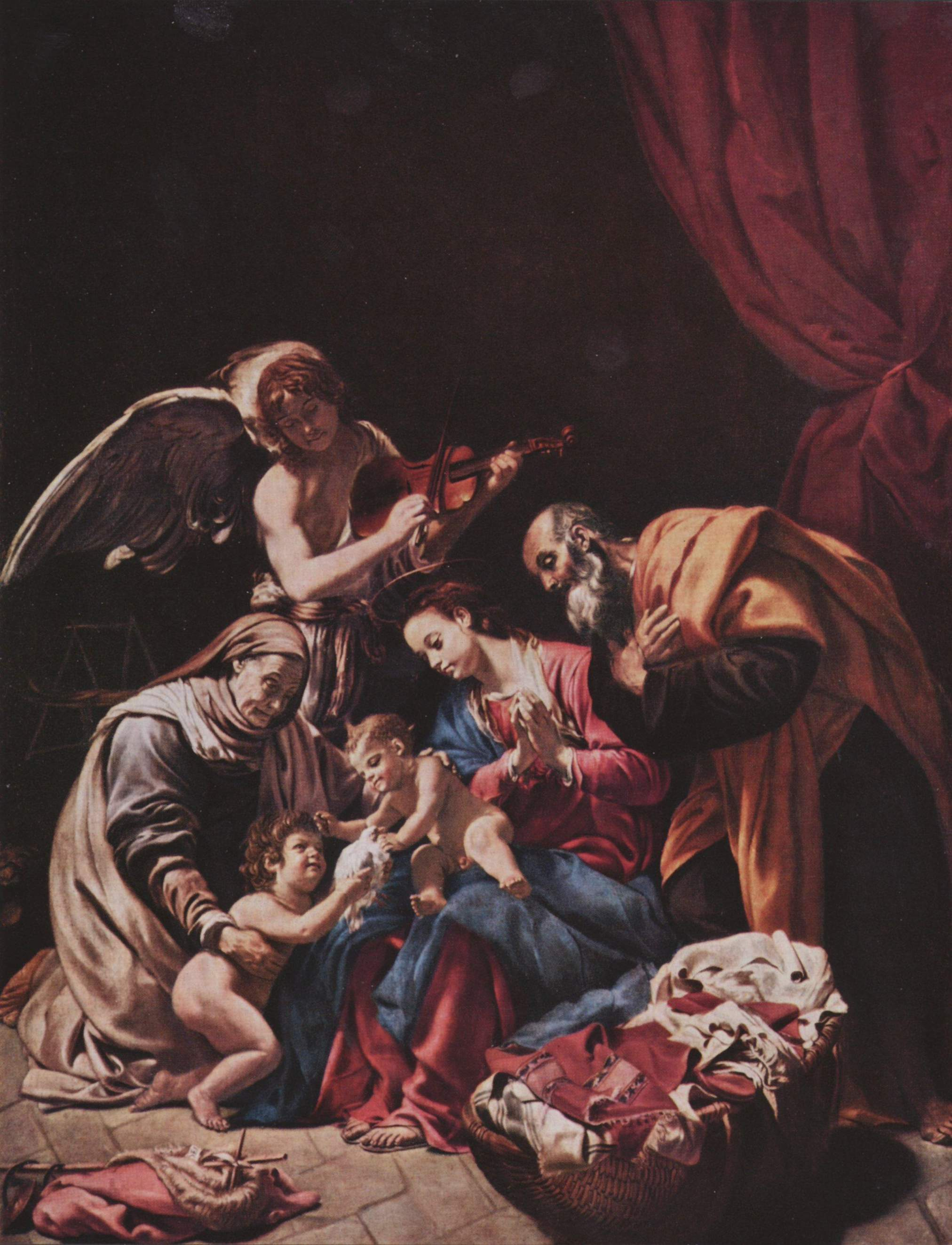 Holy Family with Music-Playing Angel, Saint Elisabeth and the Infant John the Baptist Handing the Dove, an Allegory of the Holy Spirit, to Jesus